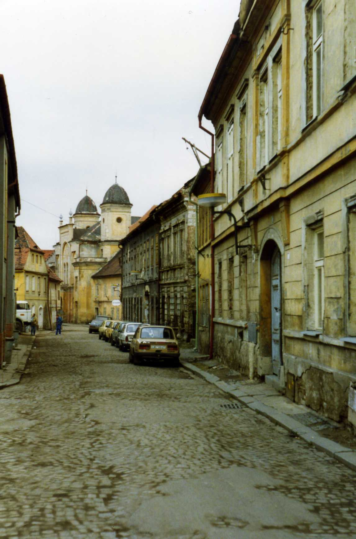 Some of the town was extremely run down. In 1938, Zatec had been incorporated into the German Reich, as it had a large Sudeten deutsch population, and was popularly known as Saaz.